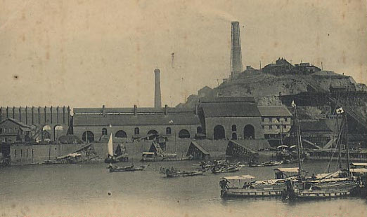 The view in Shisakajima refinery of Samitomo